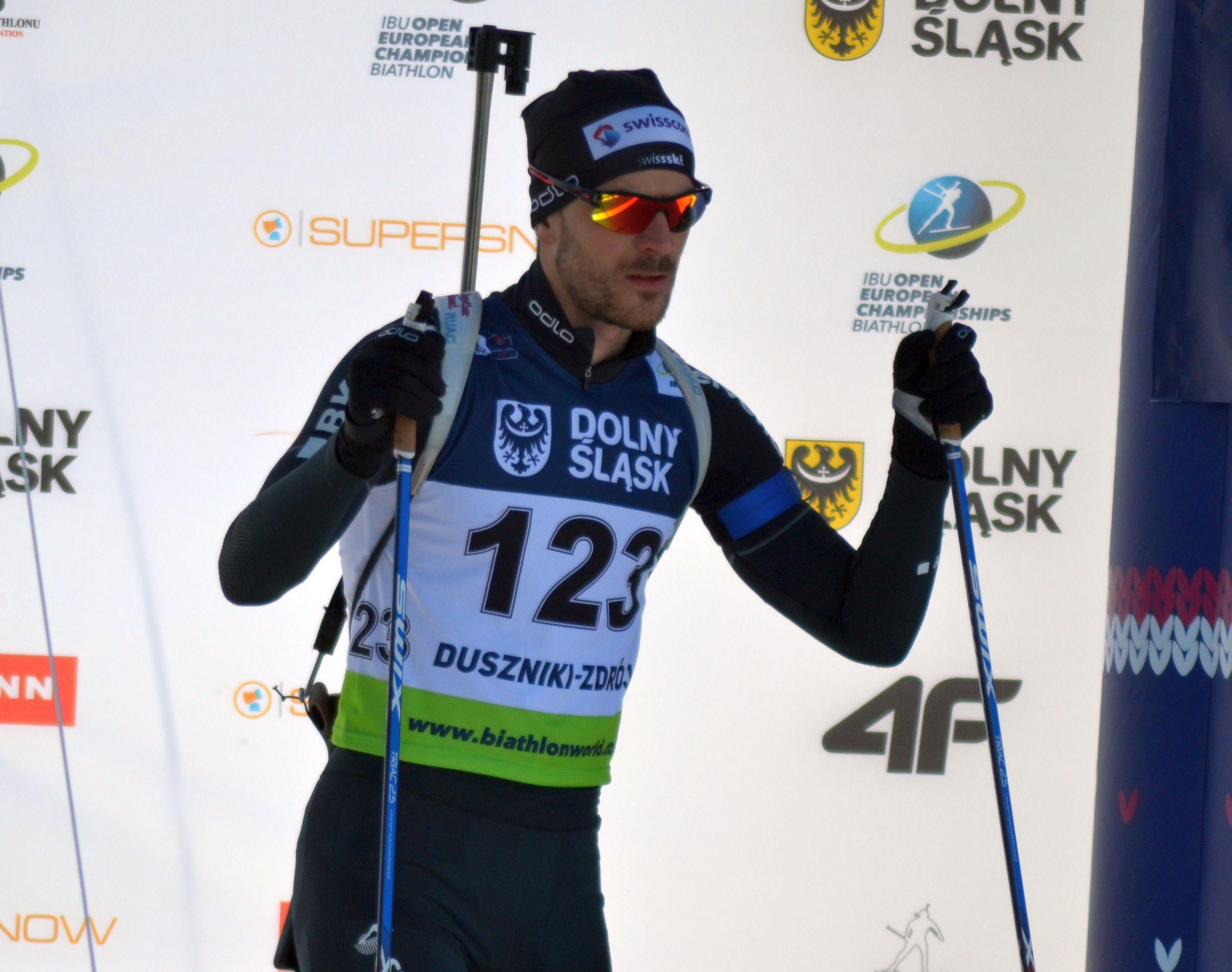 Open European Championships Biathlon 2017, Sprint Men's race, held on January 27th.